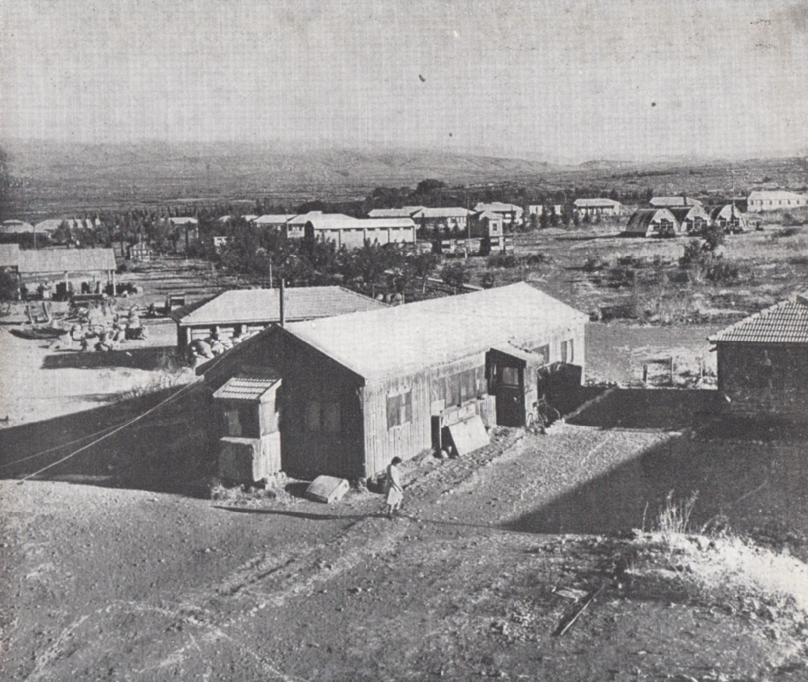 Kibbutz Dan, Settlements in Israel